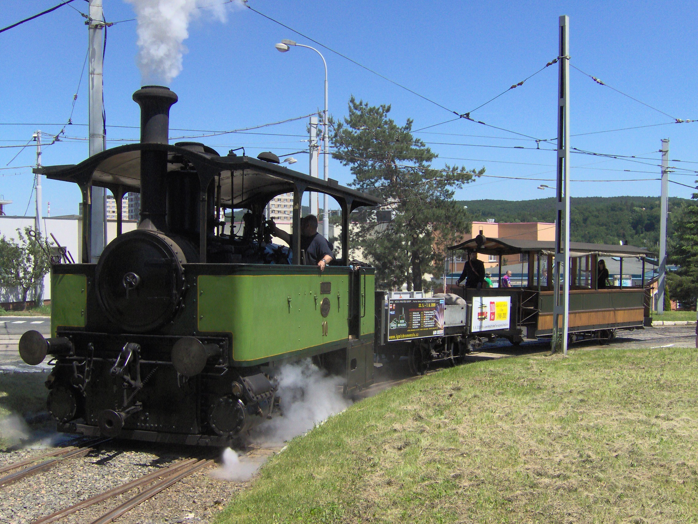 Historical steam tram with locomotive "Caroline", Medlánky depot, Brno, Czech Republic